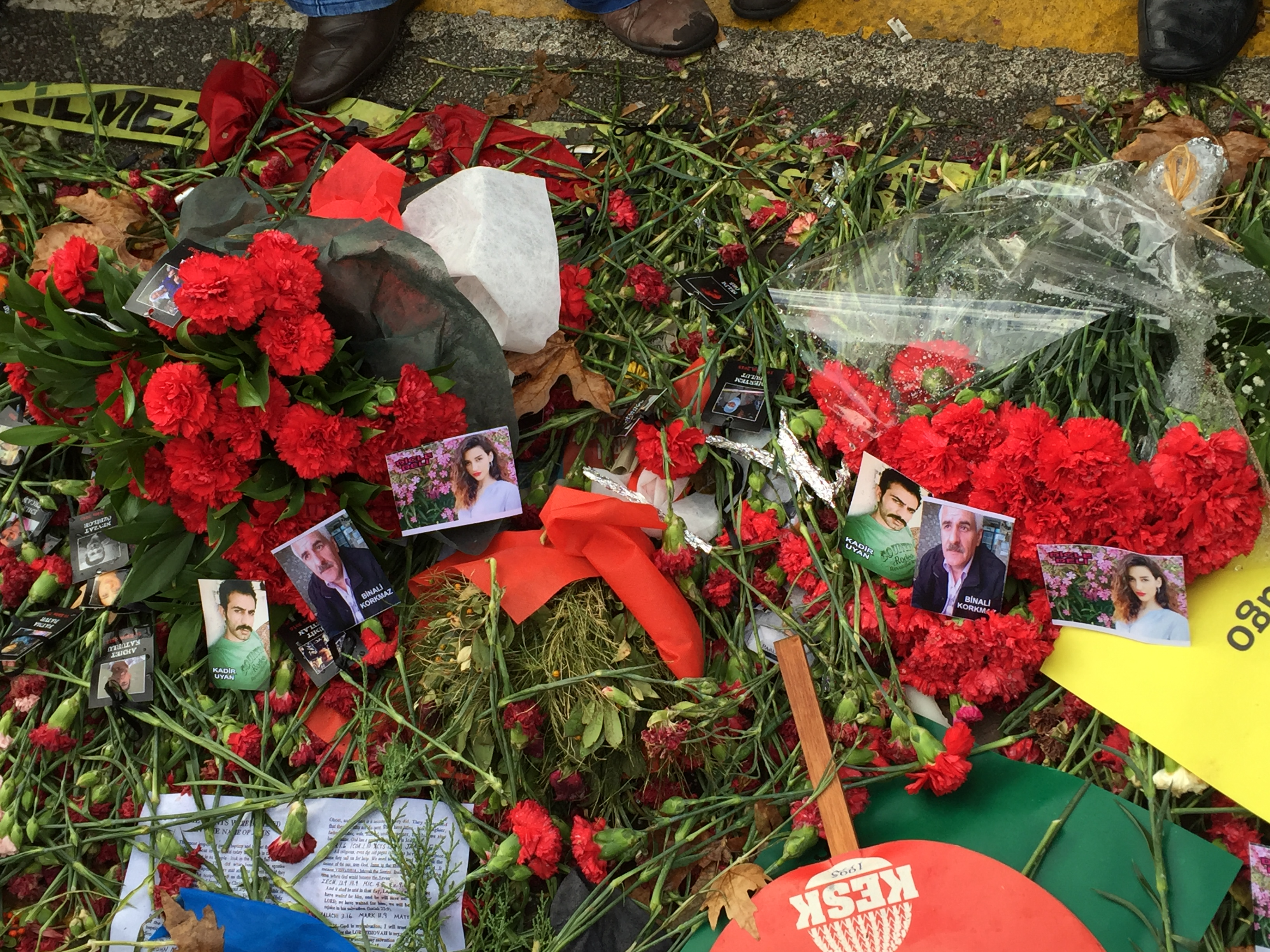 Mourning after the 2015 Ankara bombings: flowers in front of the Central railway station